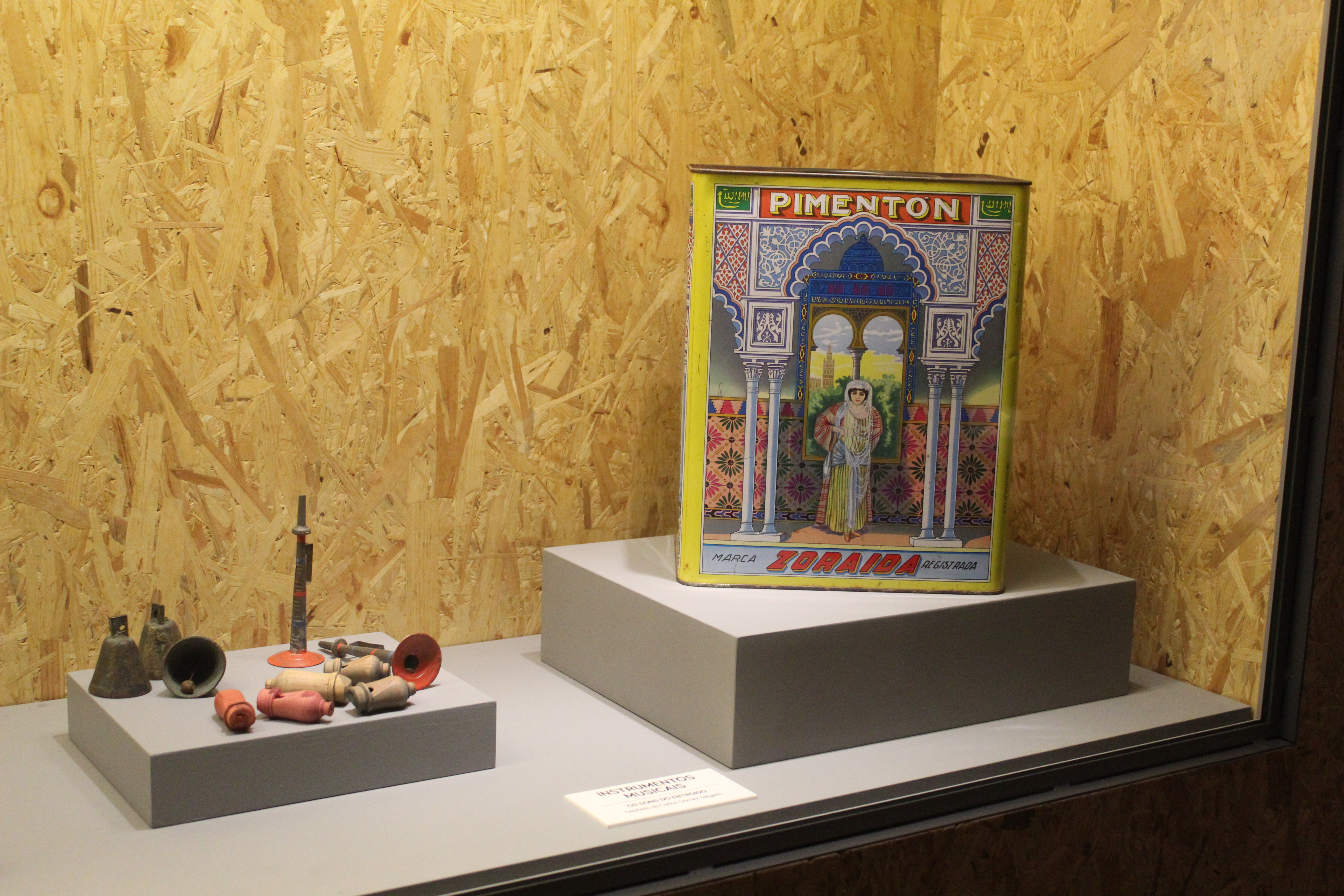 caixa de metal coa que se facía música